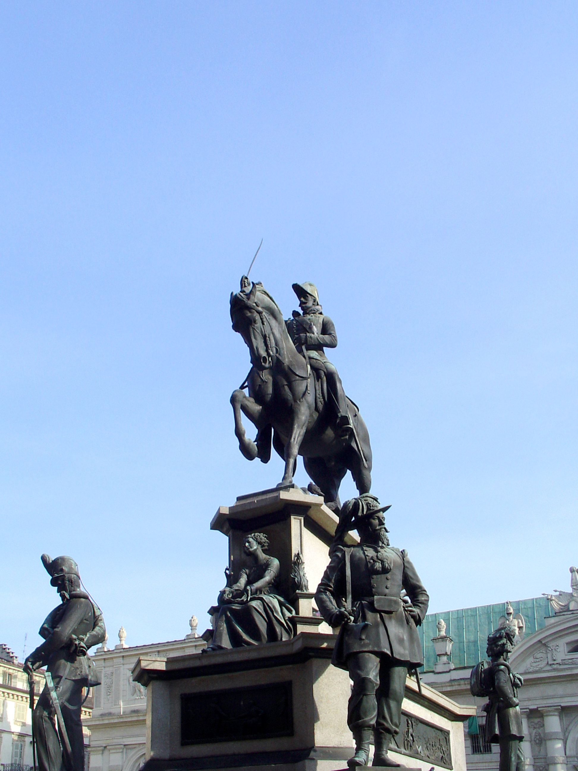 Piazza Carlo Alberto in Turin: bronze monument to Carlo Alberto by Carlo Marochetti.